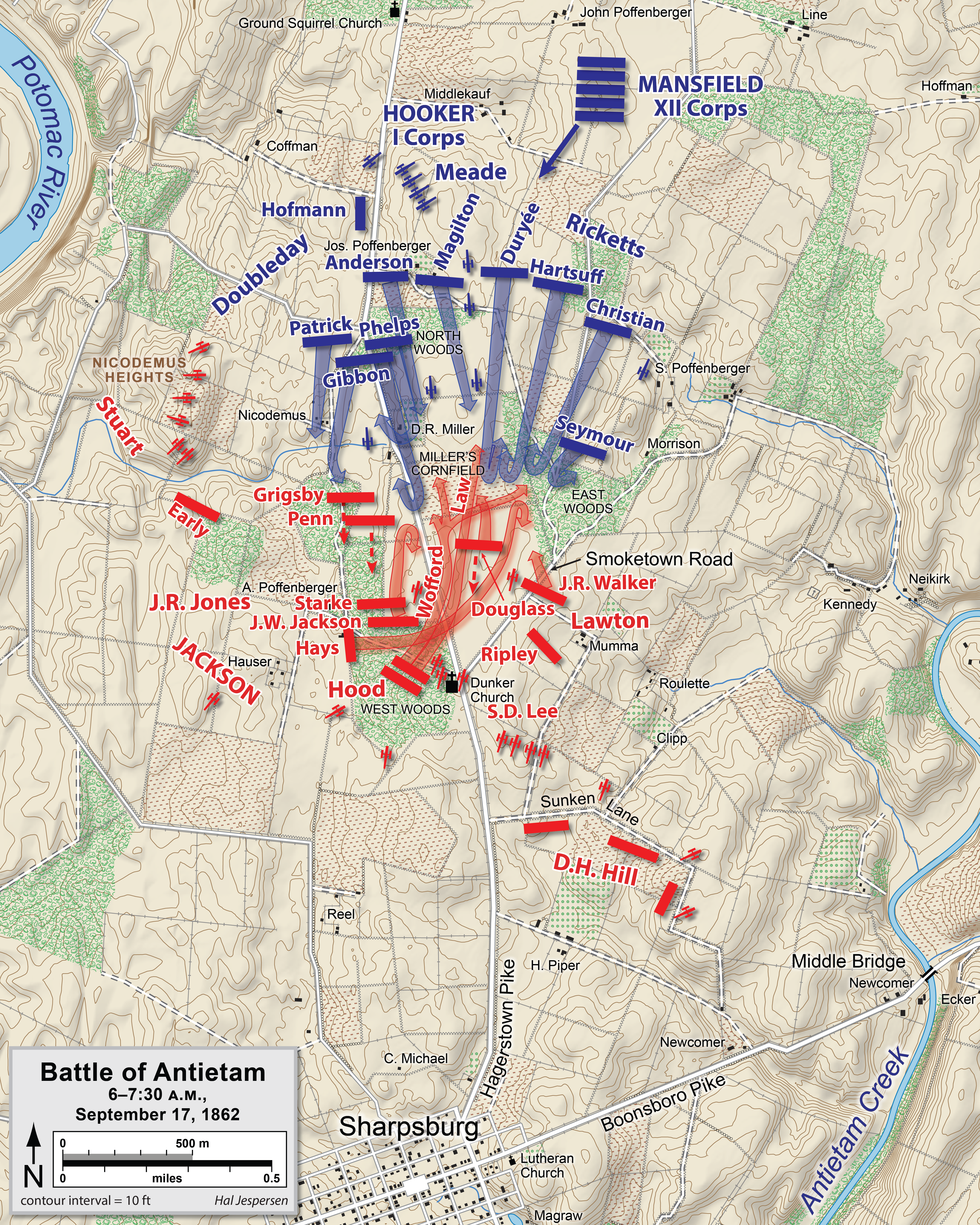 Map of the Battle of Antietam of the American Civil War. Drawn in Adobe Illustrator CS5 by Hal Jespersen. Graphic source file is available at